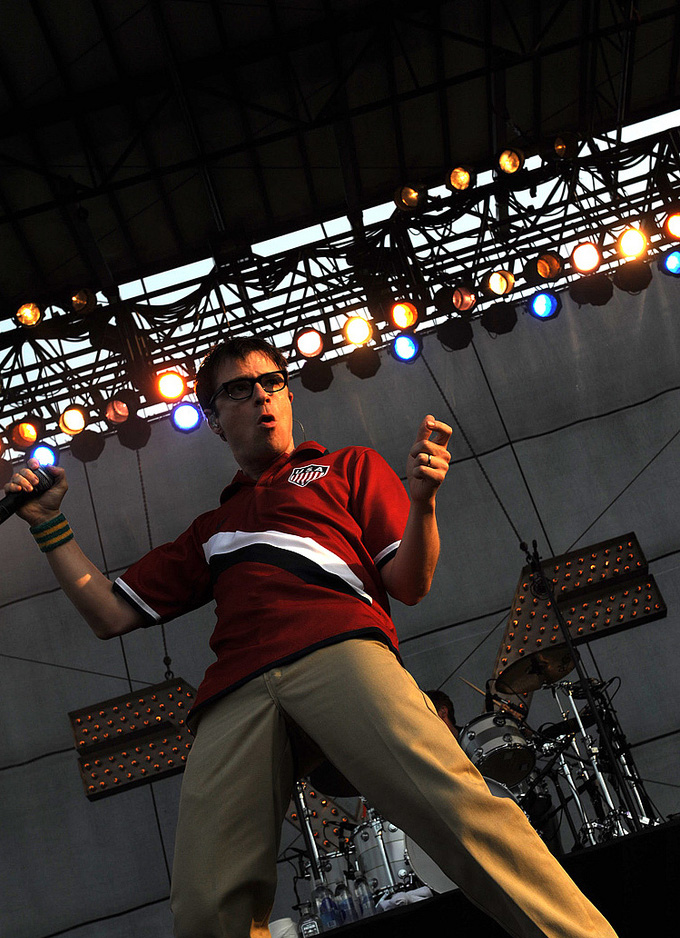 Rivers Cuomo without watermark